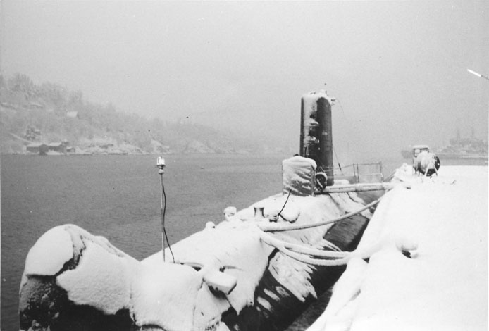 Submarine Minerve at Bergen harbour in 1962